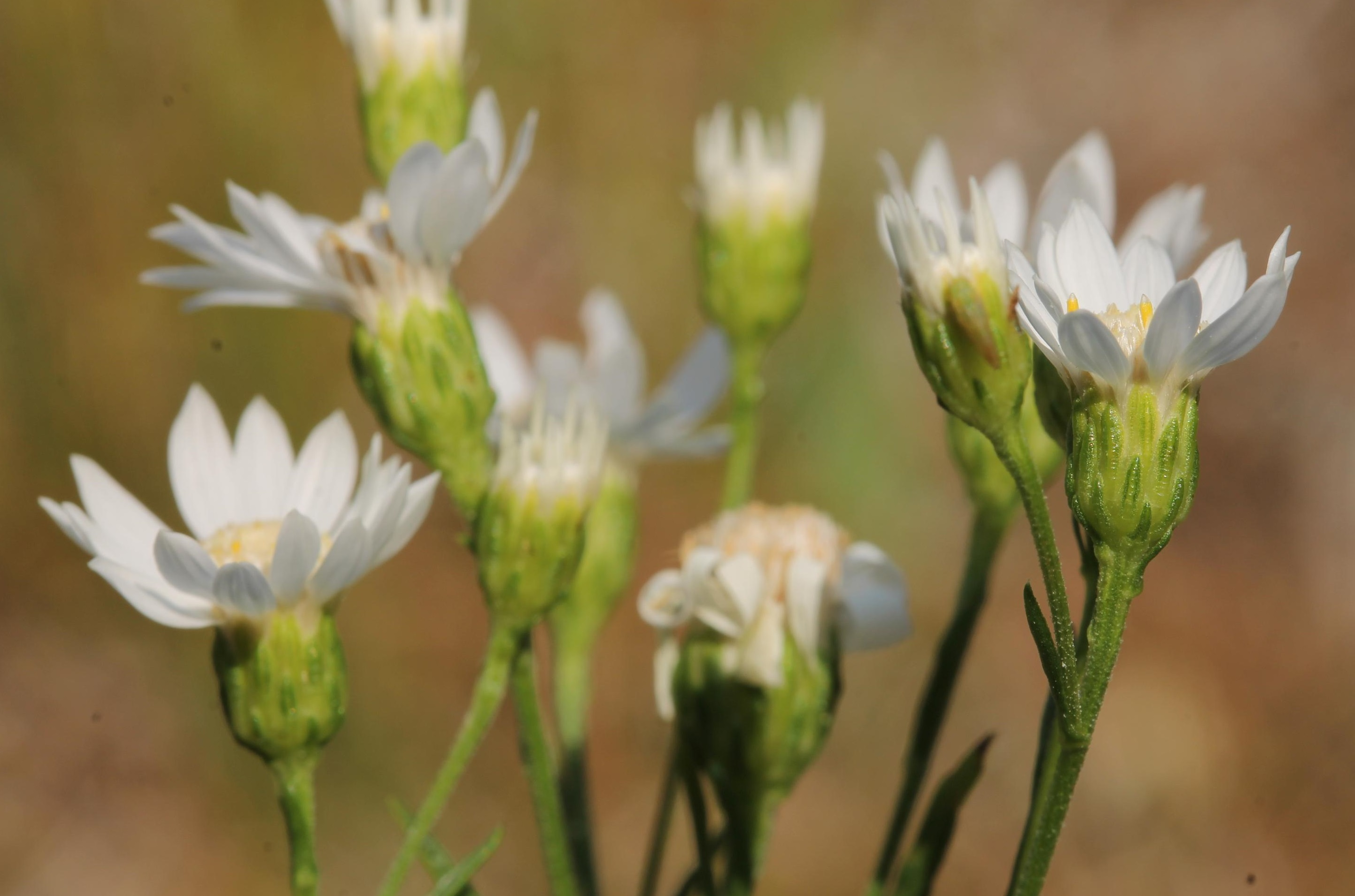 Solidago ptarmicoides at Misery Bay, Manitoulin Island, Ontario, Canada